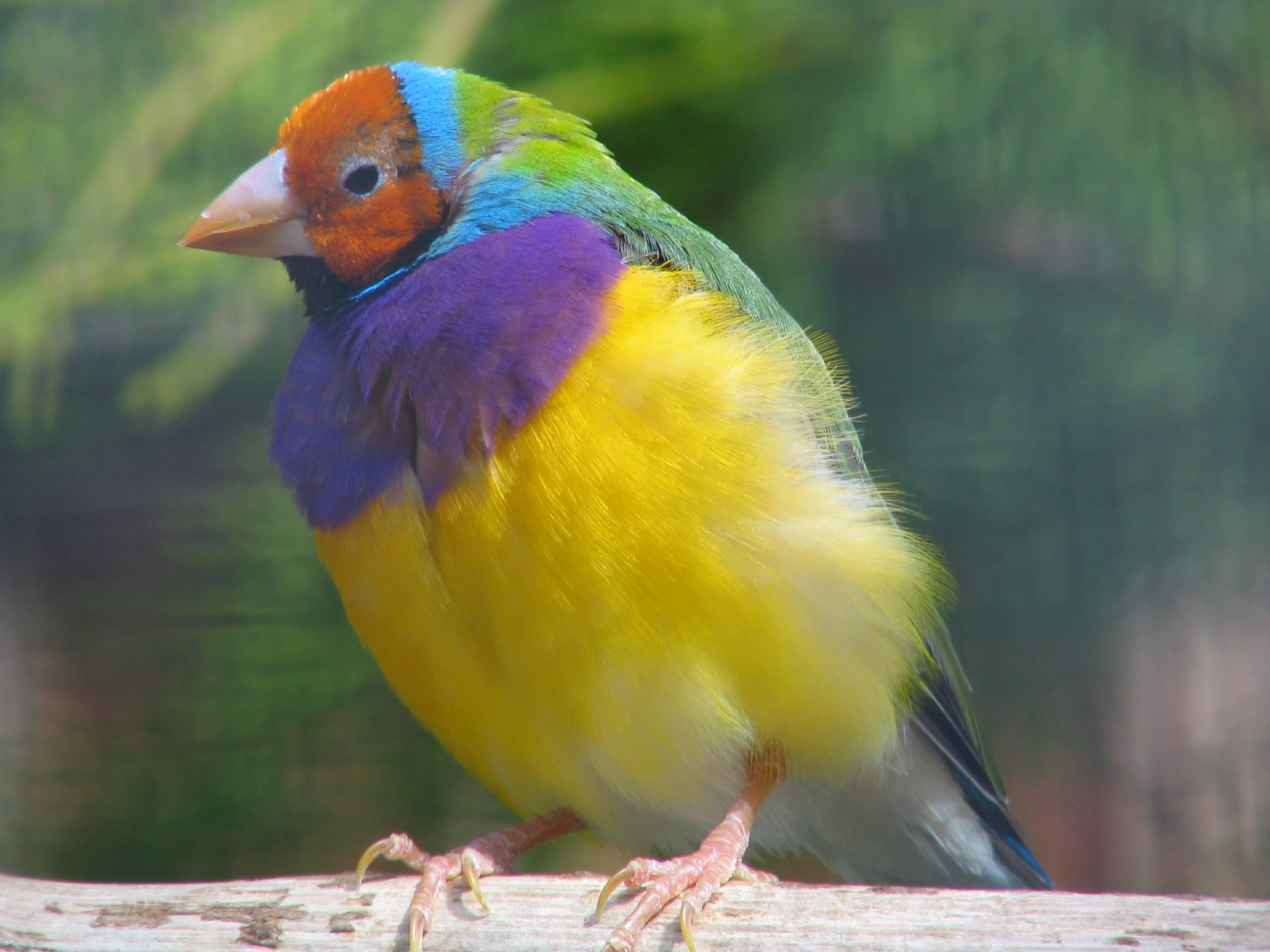 Orange-headed Gouldian Finch at the aviary of the Dunedin Botanic Gardens in New Zealand